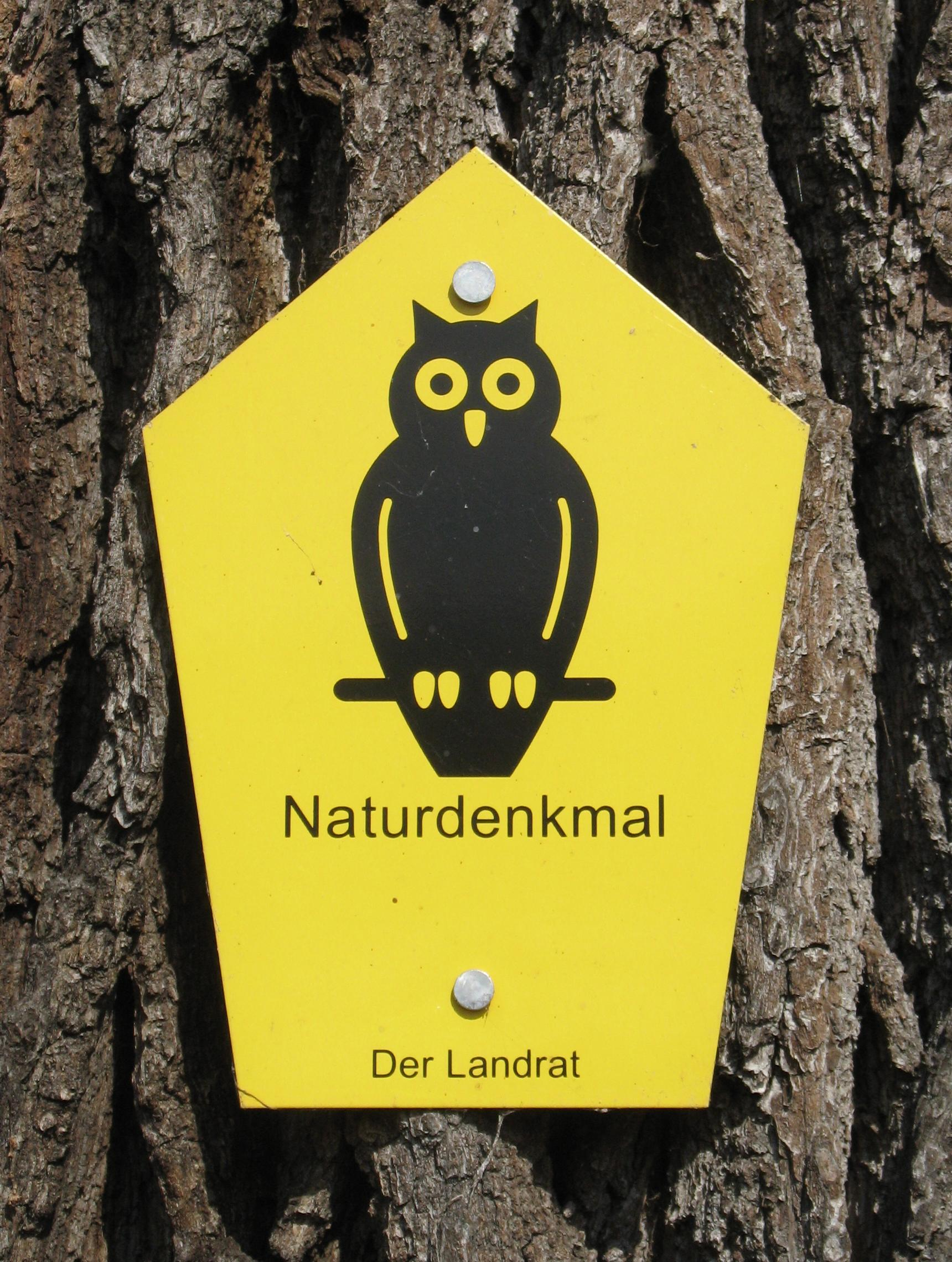 Natural monument sign in Heiligengrabe-Glienicke in Brandenburg, Germany